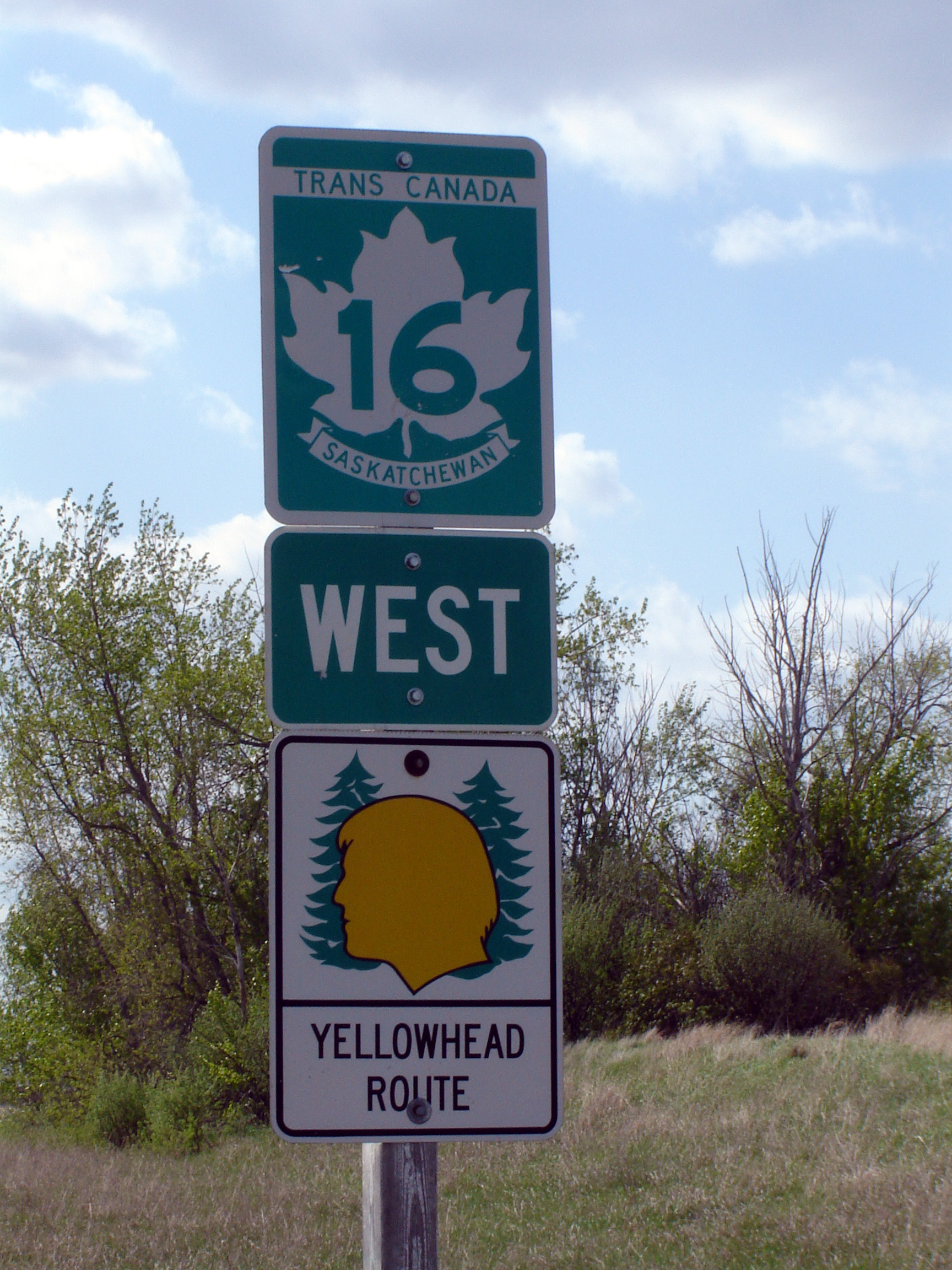 Road sign located at Saskatchewan Highway 16 or Yellowhead Highway